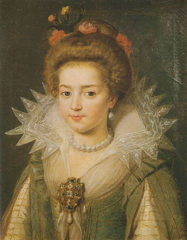 Princess Christine Marie of France (1606-1663)